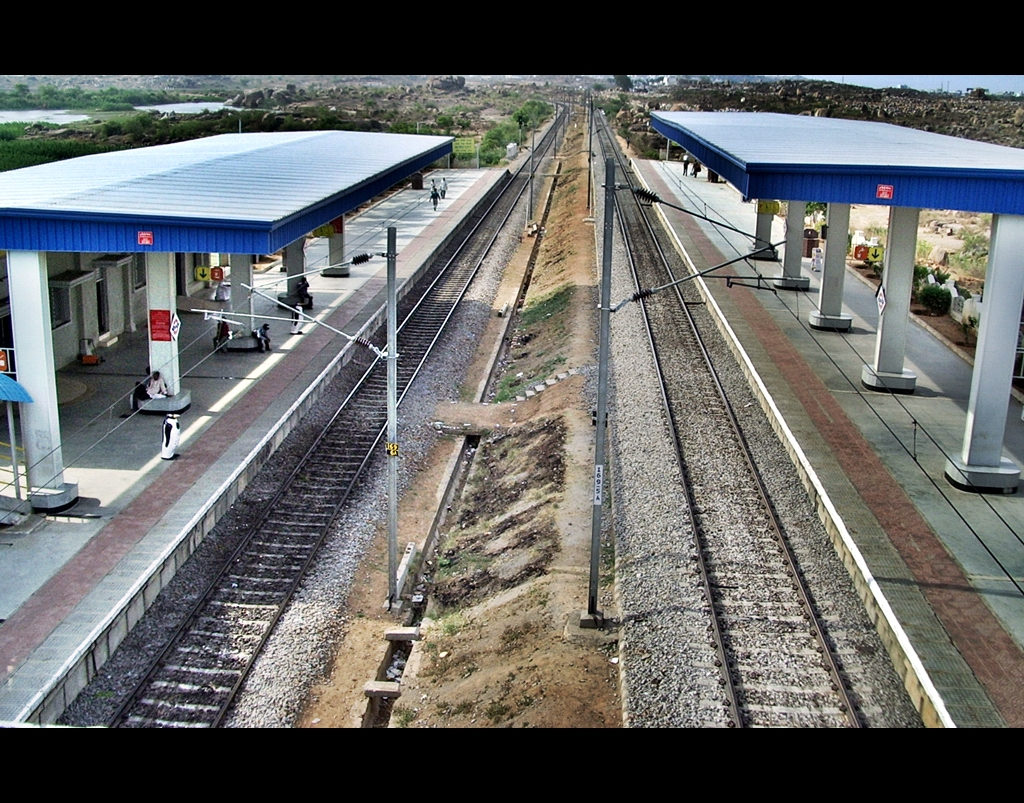 Hi-Tec city Railway Station in Hyderabad. Shot from the foot over bridge. Processed in PhotoScape to give some HDR look :)